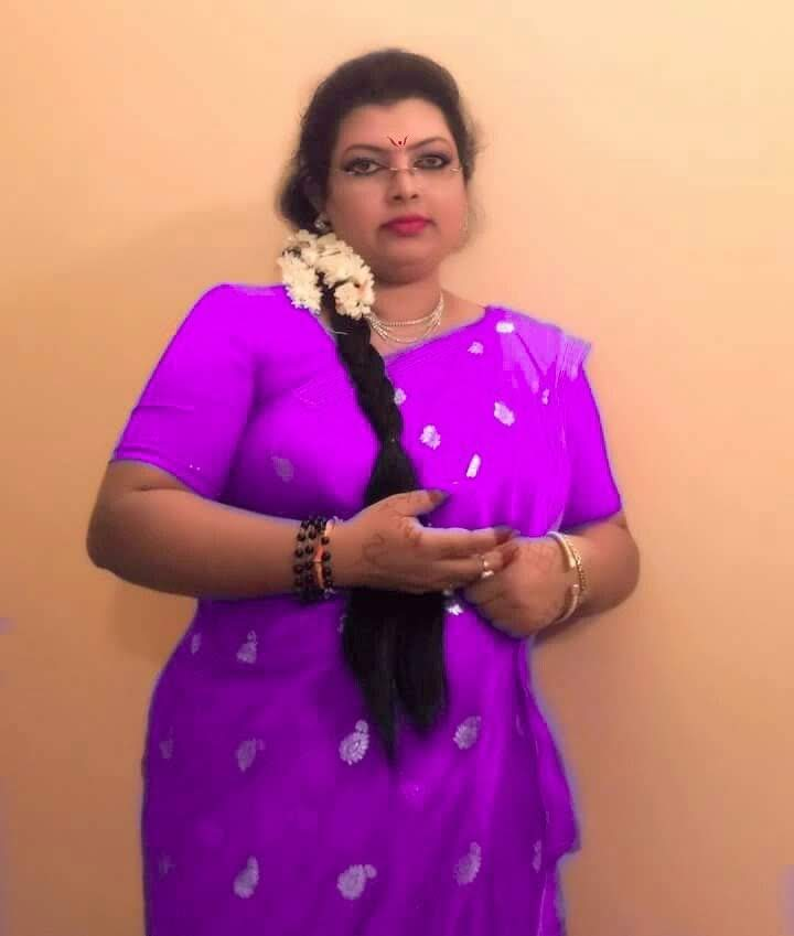 hi everyone